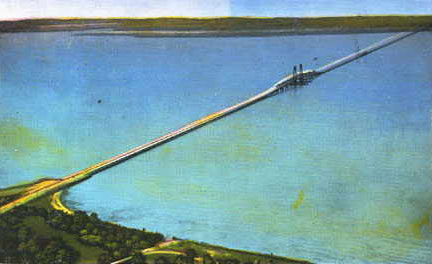 Source: James River Bridge on a postcard. Picture taken by United States Army Air Corps, Langley Field, Virginia (this in in the original version of the image, which was later cropped).